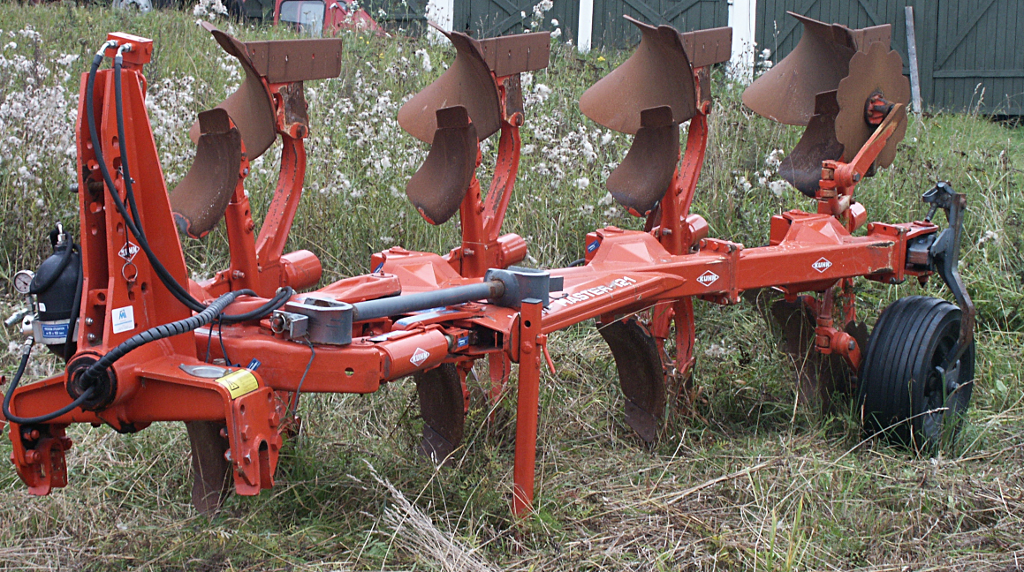 A Kuhn four-furrow reversible plough